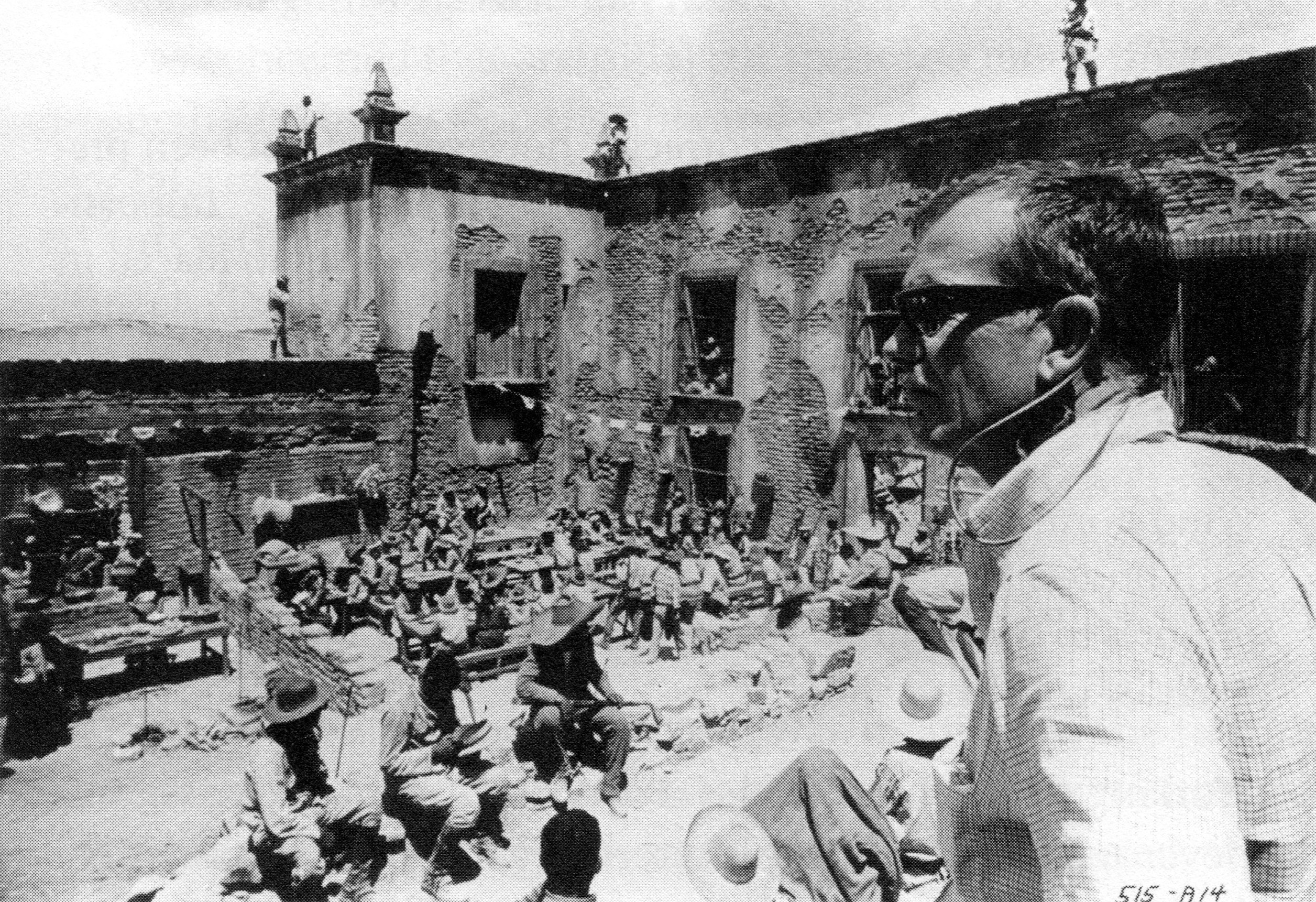 Production still for the film The Wild Bunch. Director Sam Peckinpah on right. The photograph was taken on-set by the studio, most likely for publicity purposes. Such images were then disseminated to the media and the public to promote the film (see Film still). It is definitely not a screenshot as an exact image like this never appears in the film. Since the image was published prior to 1977, under the terms of the 1909 Copyright Act (which was law until 1978), any copyright that may have been secured for the photograph would have had to be renewed 28 years after publication. The copyright for this image would therefore have had to be renewed in 1996. A search with The United States Copyright Office for "The Wild Bunch" finds no trace that this occurred.